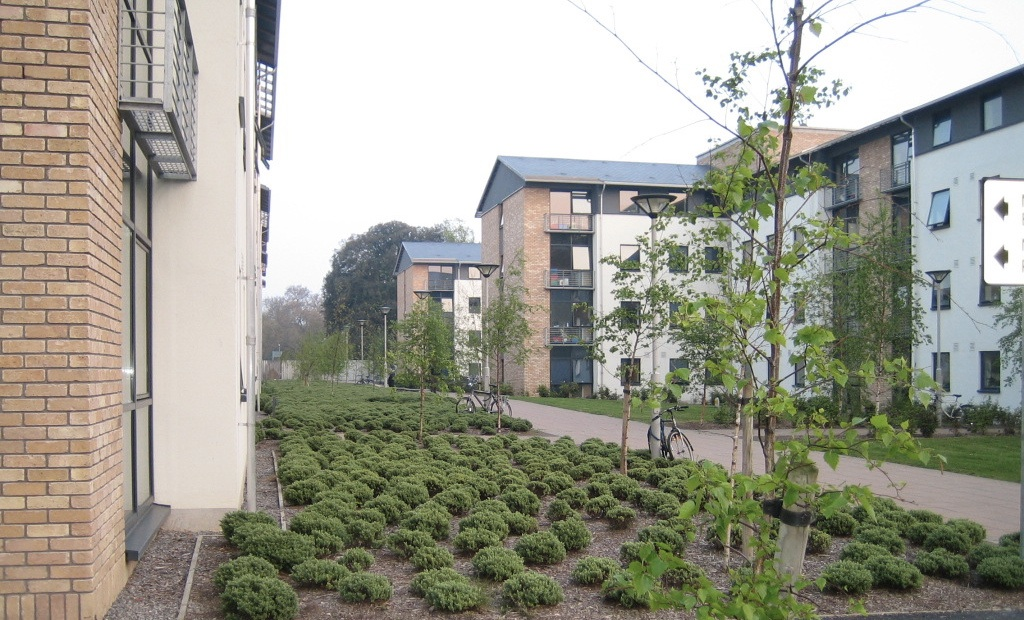 Created by feshti